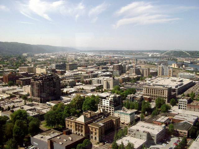 Photo of the northwest view from the US Bancorp Tower. Featured are a portion of Old Town, the North Park Blocks, the Pearl District skyline, Fremont Bridge, and the NW Industrial Area in the distance.